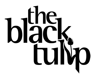 Logo designed by Matthew Palmateer for the film The Black Tulip